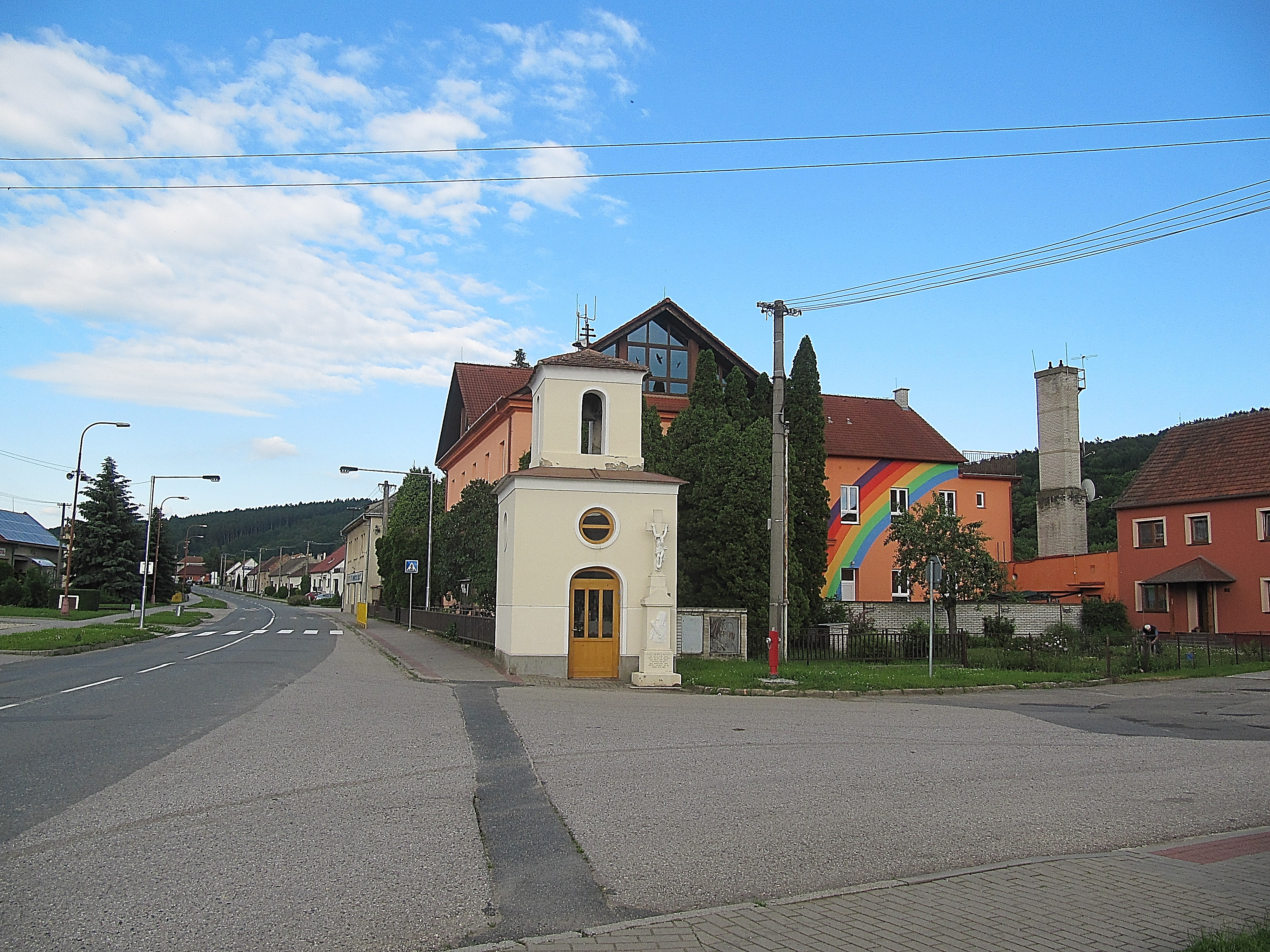 Záhorovice, Uherské Hradiště District, Czech Republic.